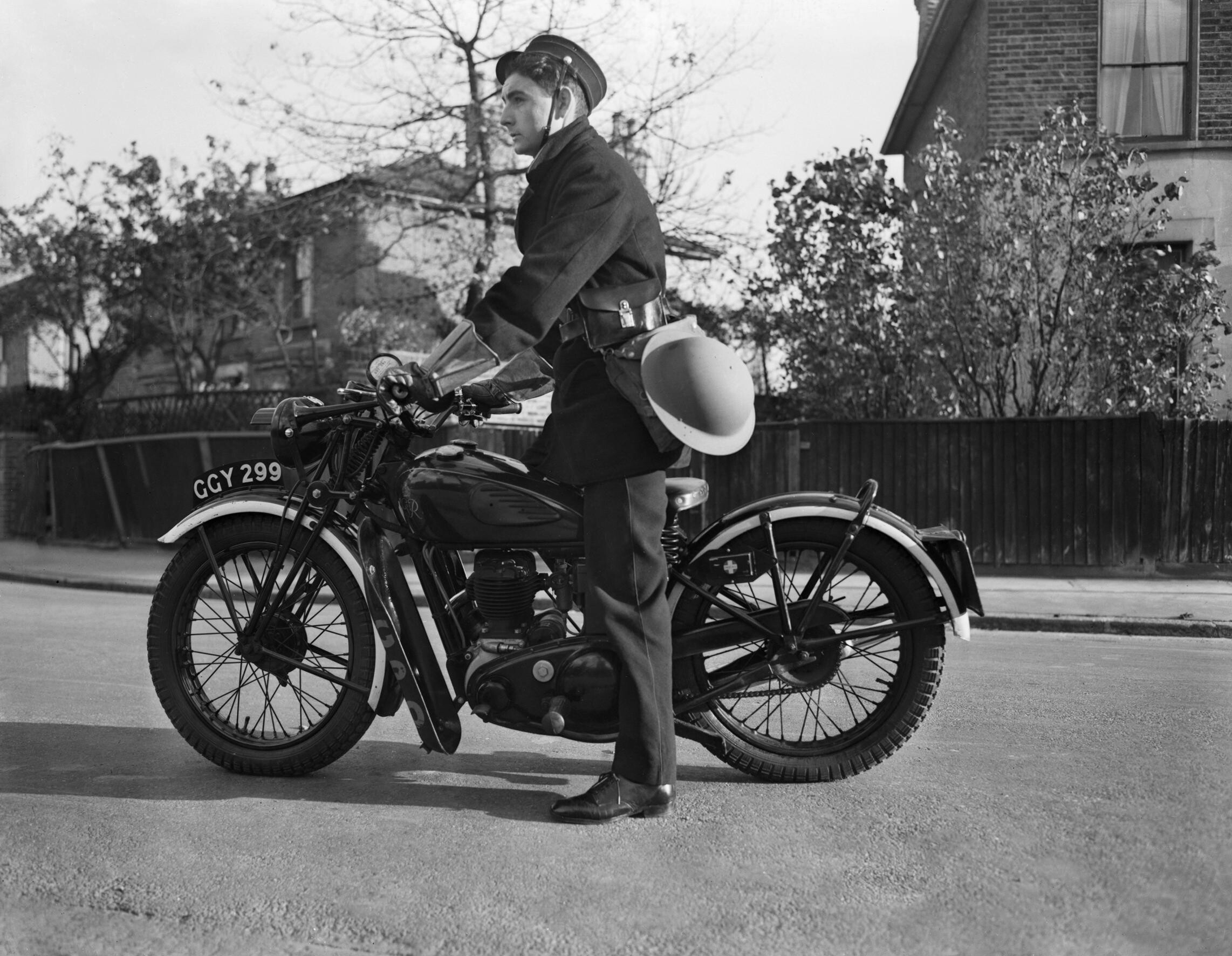 Mr W A J Dearn, a motorcycle messenger attached to Wood Green Post Office, 1941. Motor cyclist W A J Dearn is a motorcycle messenger attached to Wood Green Post Office.